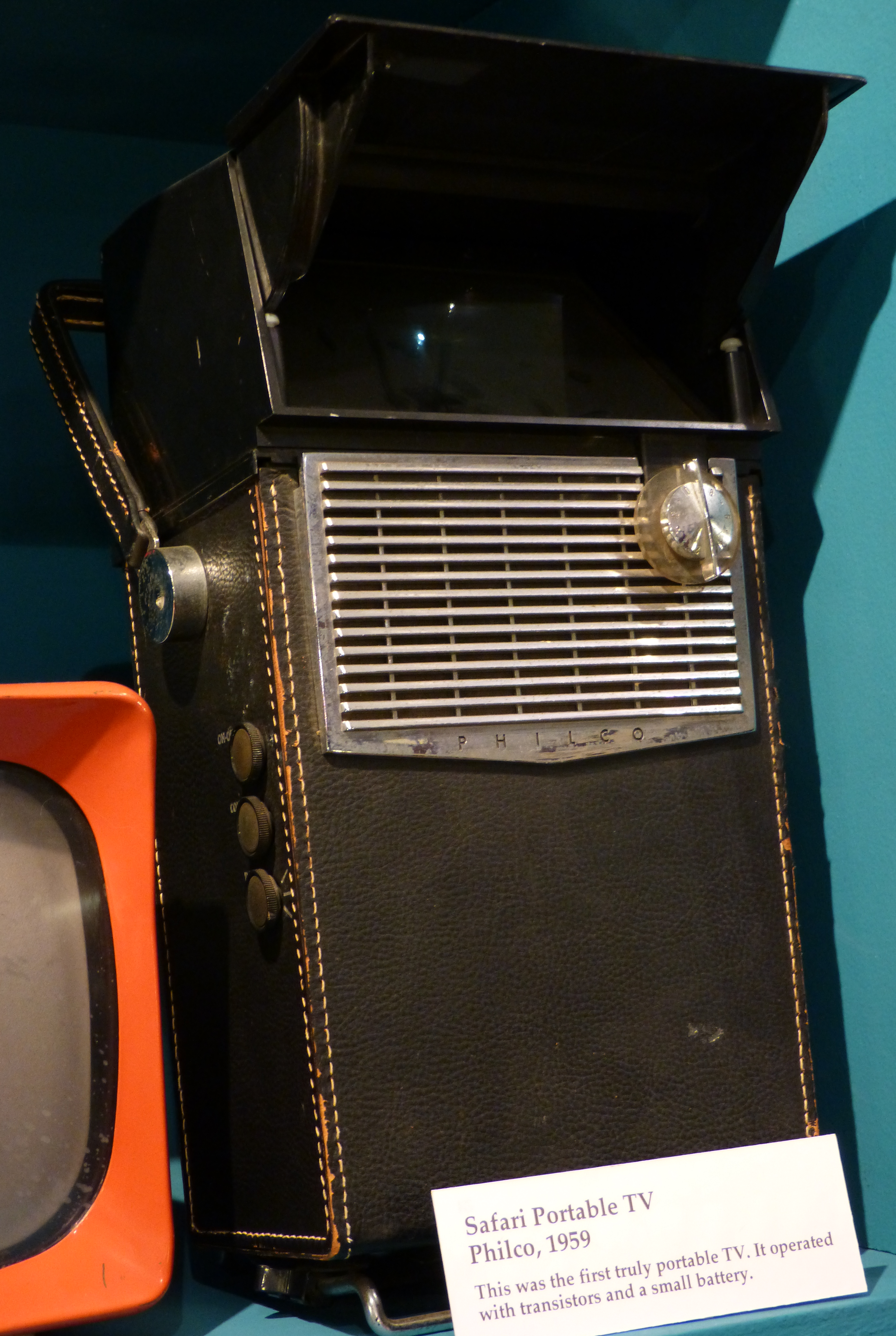 A photo of a Philco Safari portable TV. This TV dates back to 1959. The photo was taken during a visit to the Museum of American Heritage where the TV was on display.